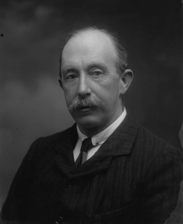 William Heneage Legge, 6th Earl of Dartmouth, portrait circa 1907